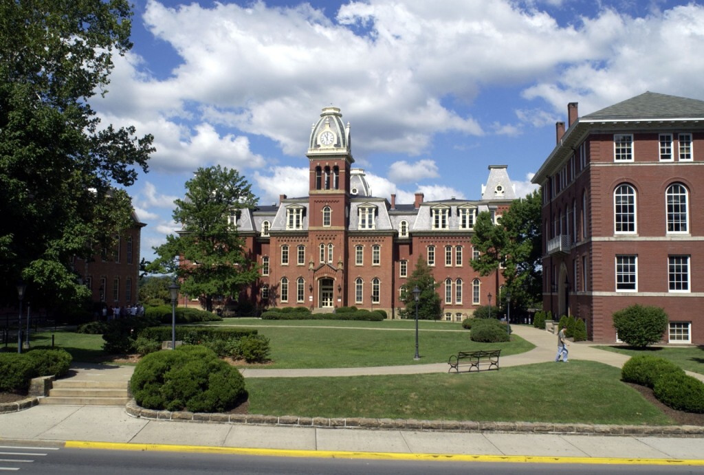 A major campus landmark, Woodburn Hall was built in 1876 and is on the National Register of Historic Places.